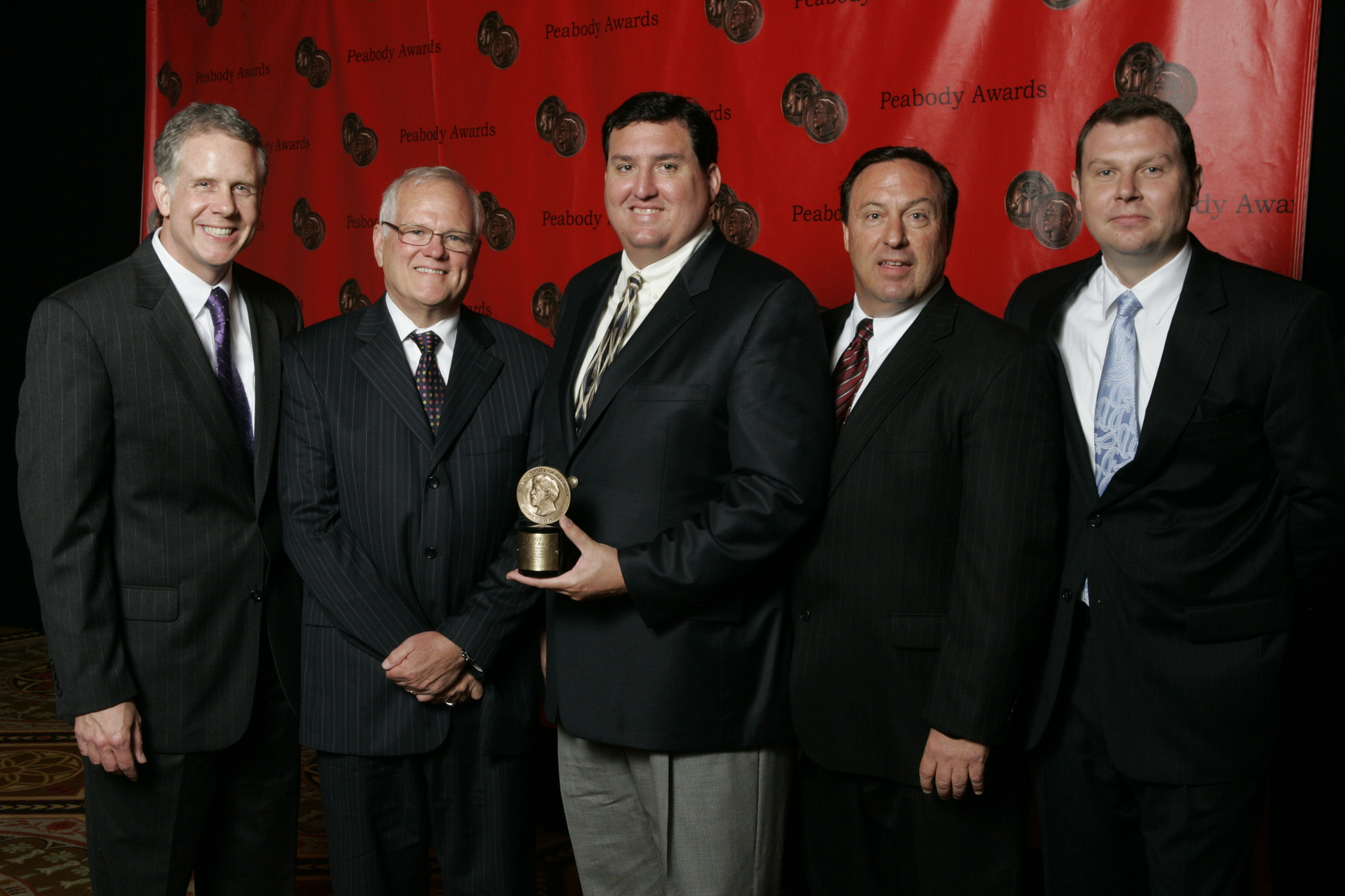 Kraig Kirchem, Byron Harris, Mark Smith, Brett Shipp and Michael Valentine for "Money for Nothing," "The Buried and the Dead," "Television Justice" and "Kinder Prison" 67th Annual Peabody Awards Luncheon Waldorf=Astoria Hotel New York, NY USA June 16, 2008